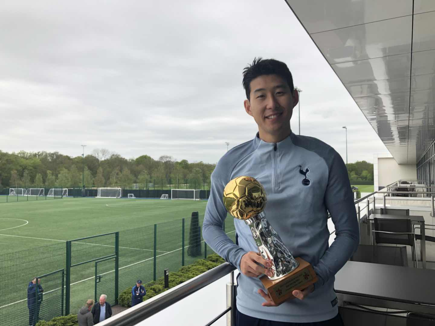 Titan Sports conferred the trophy to Son Heung-min